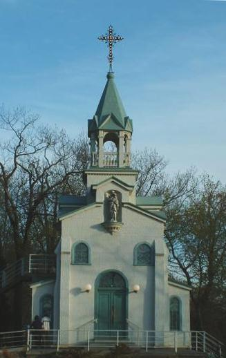 André Besette's original chapel.